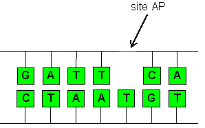 Small sketch for illustrating AP sites in DNA